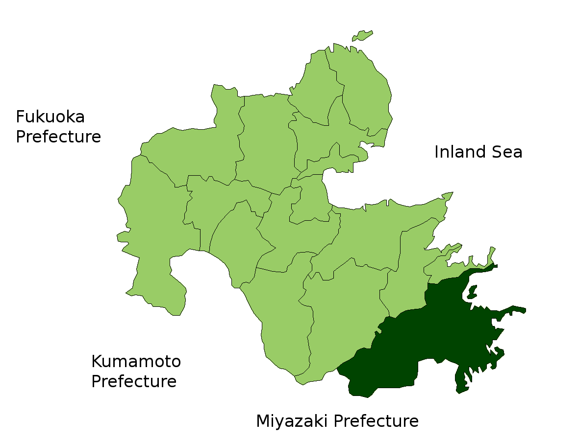 Location Map of Saiki in Oita Prefecture, Japan